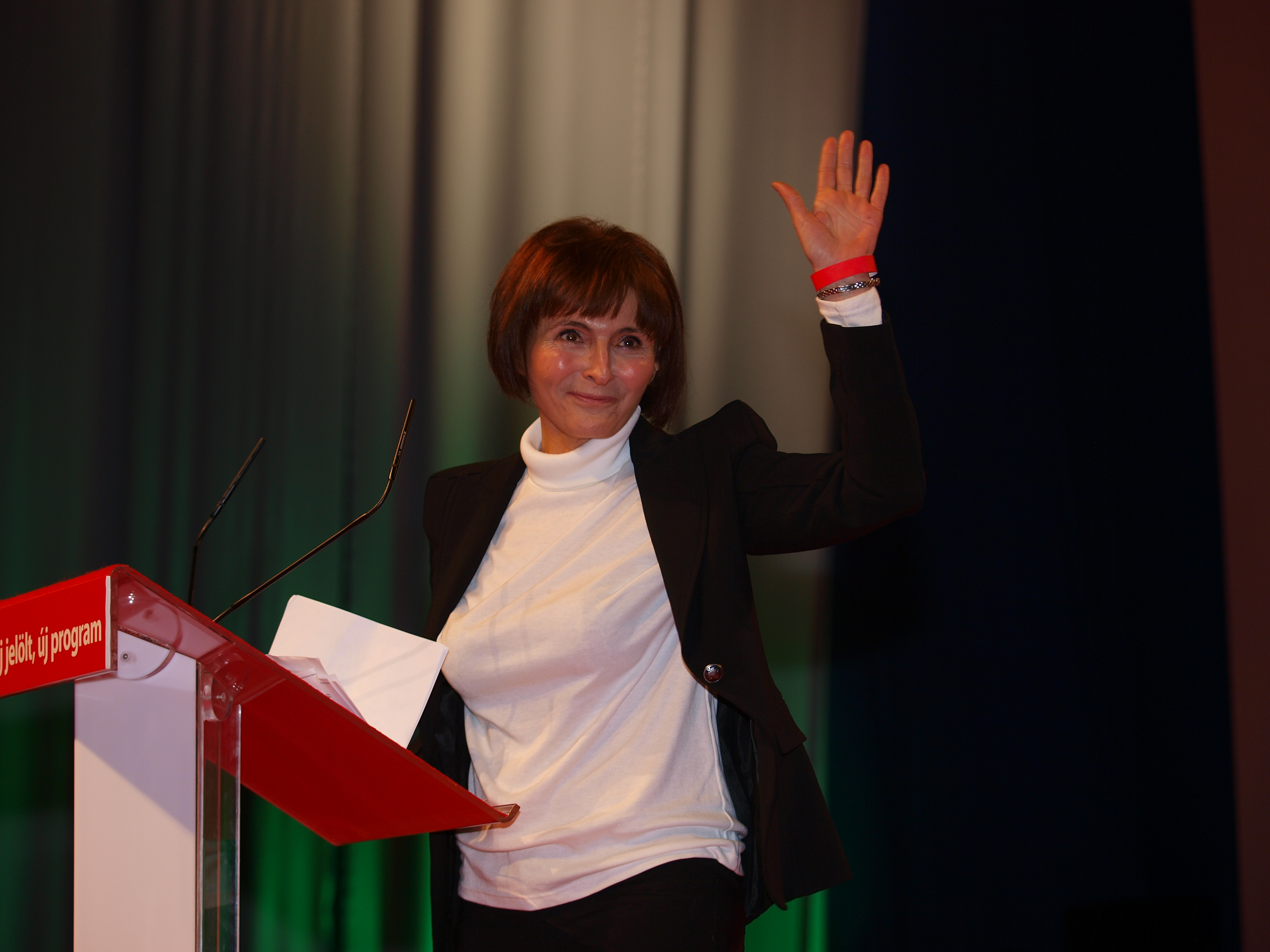 Ildikó Lendvai at the opening event of the MSZP's election campaign in 2010